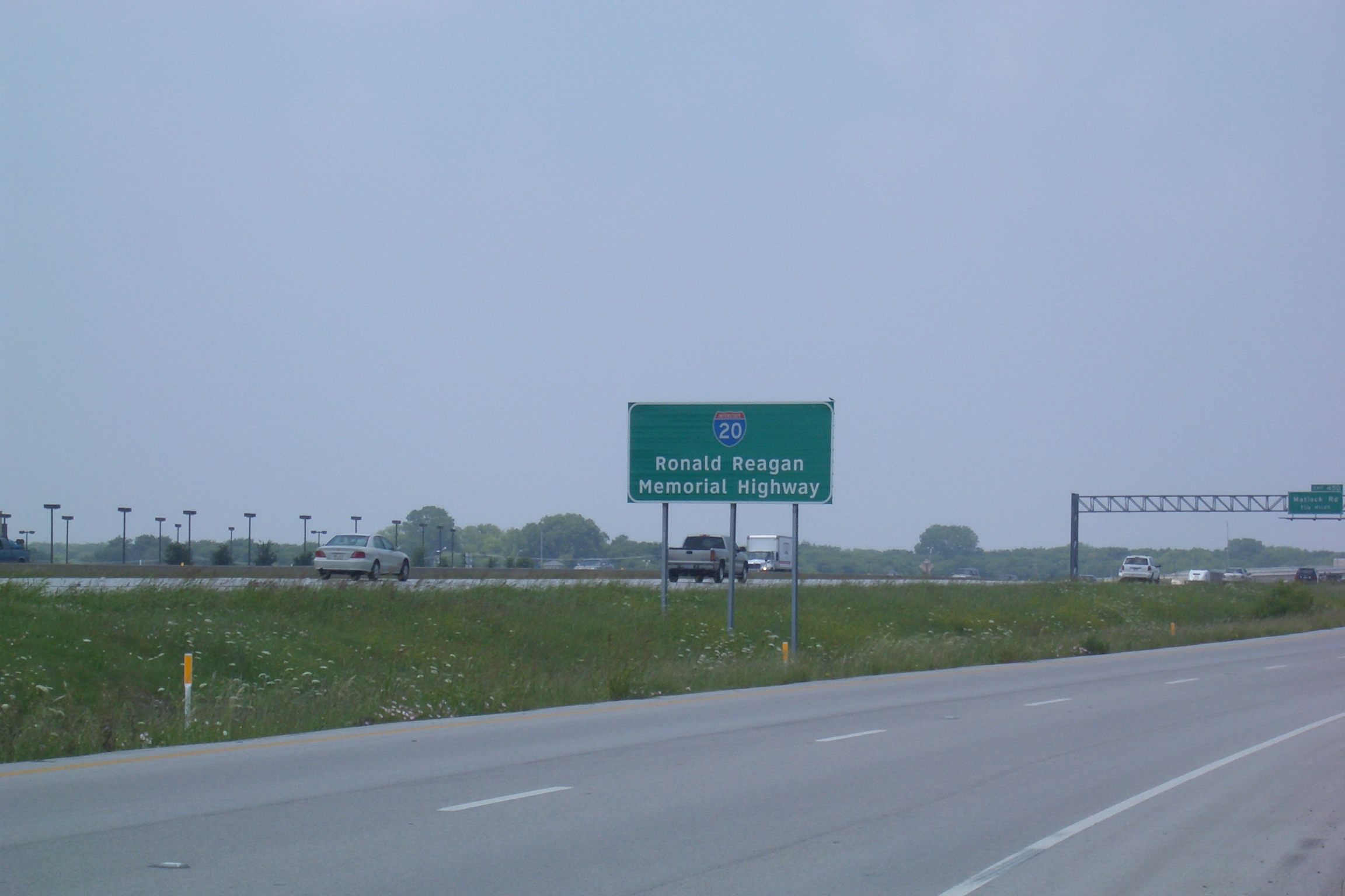 On February 13, en:2006, a portion of Interstate 20, in Arlington, Texas was renamed as the Ronald Reagan Memorial Highway in dedication of Ronald Reagan, the 40th President of the United States. From the press release: On July 27, 2004, the Arlington City Council endorsed a resolution supporting the highway designation, and on September 1, 2005, the Texas Legislature authorized a portion of I-20 through Tarrant County and Grand Prairie as the new Ronald Reagan Memorial Highway.